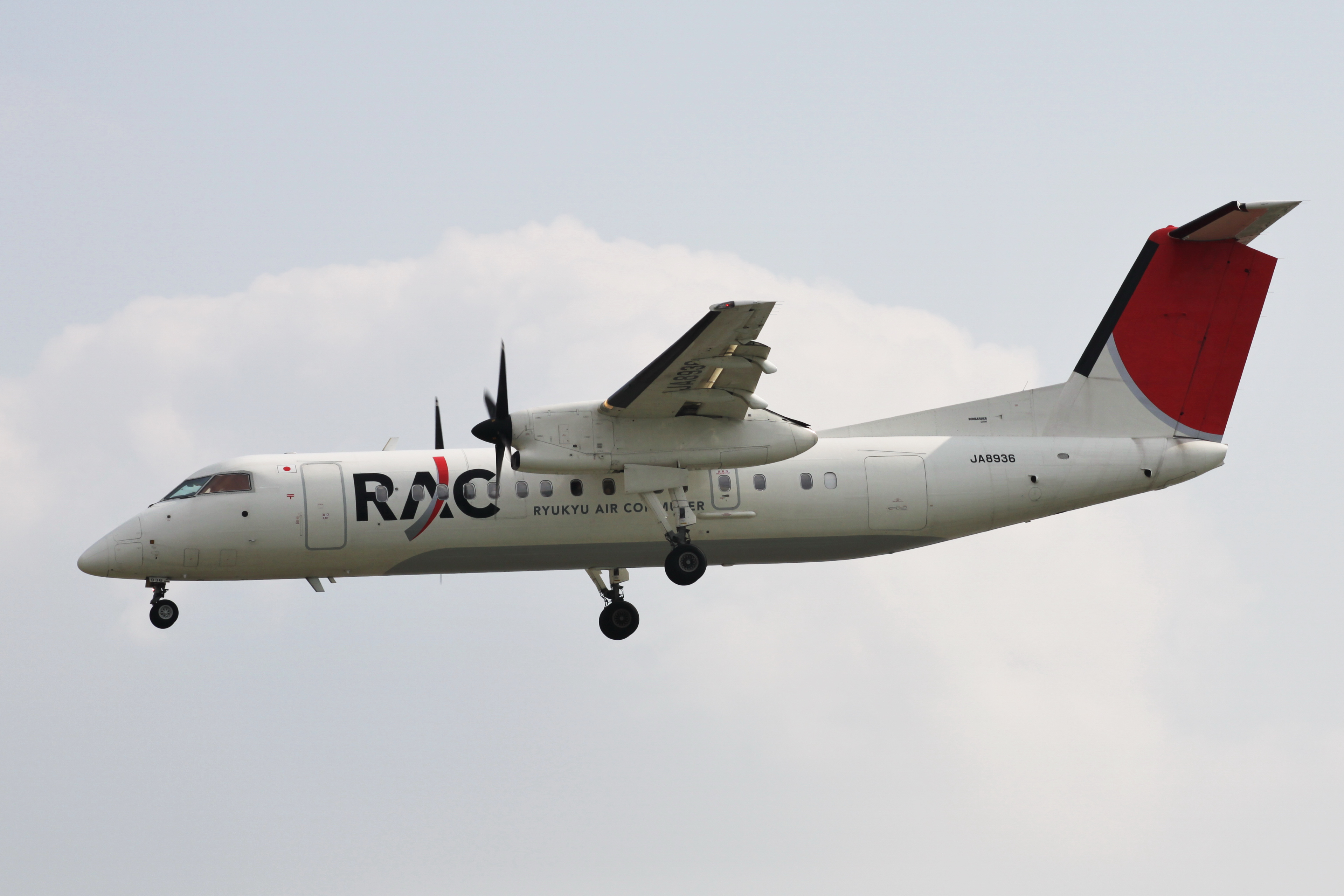 Final approach to Runway 36, Naha Airport, DHC-8-314 Dash 8, c/n:635 Ryukyu Air Commuter